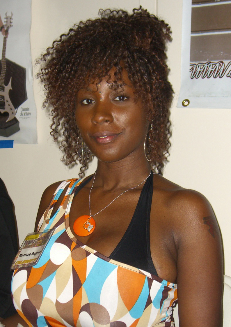 Horror movie actress Monique Dupree at the Big Apple Convention in Manhattan, June 8, 2008.